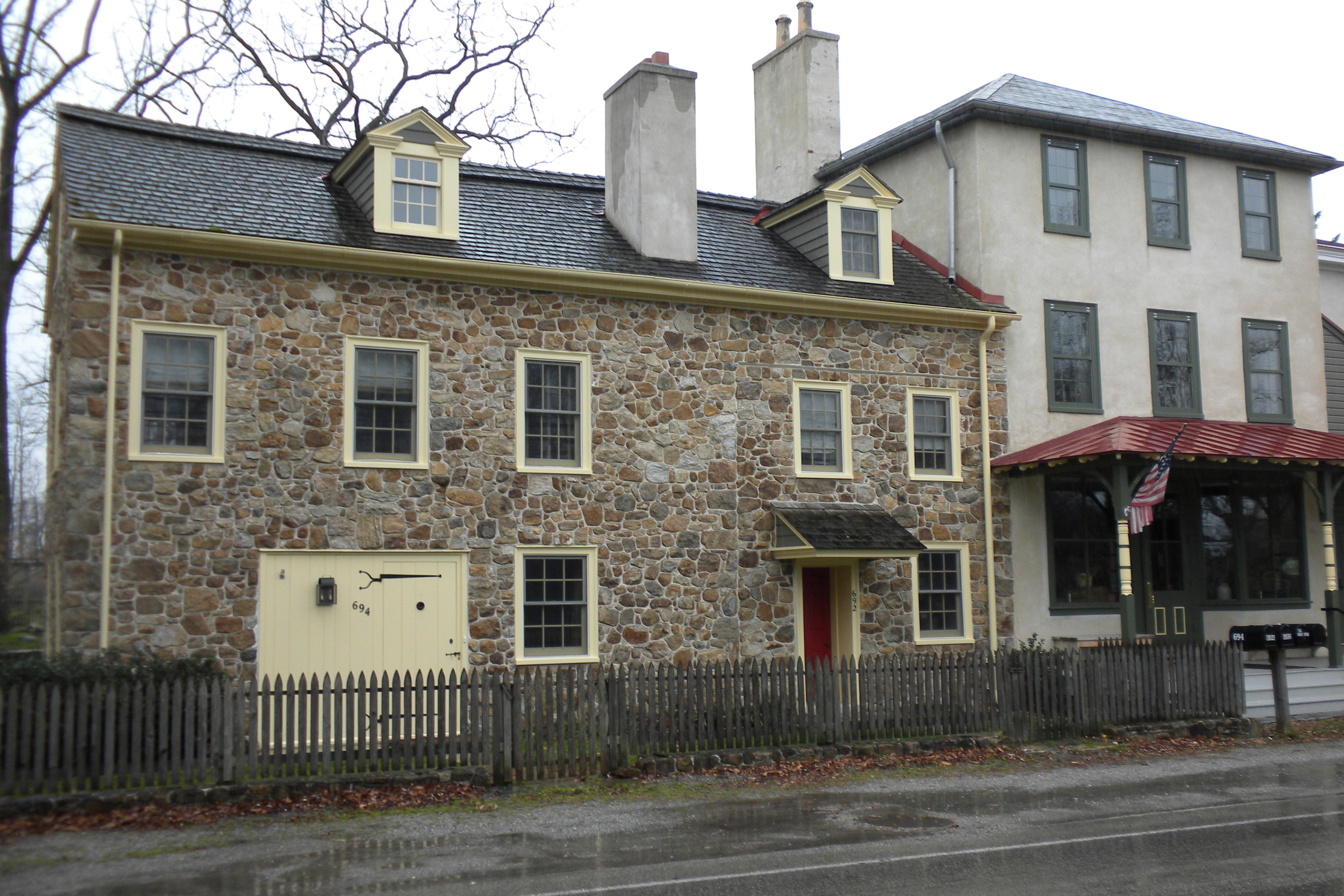 Saddlery and General Store in Sugartown, PA, in Chester County and a NRHP historic district.